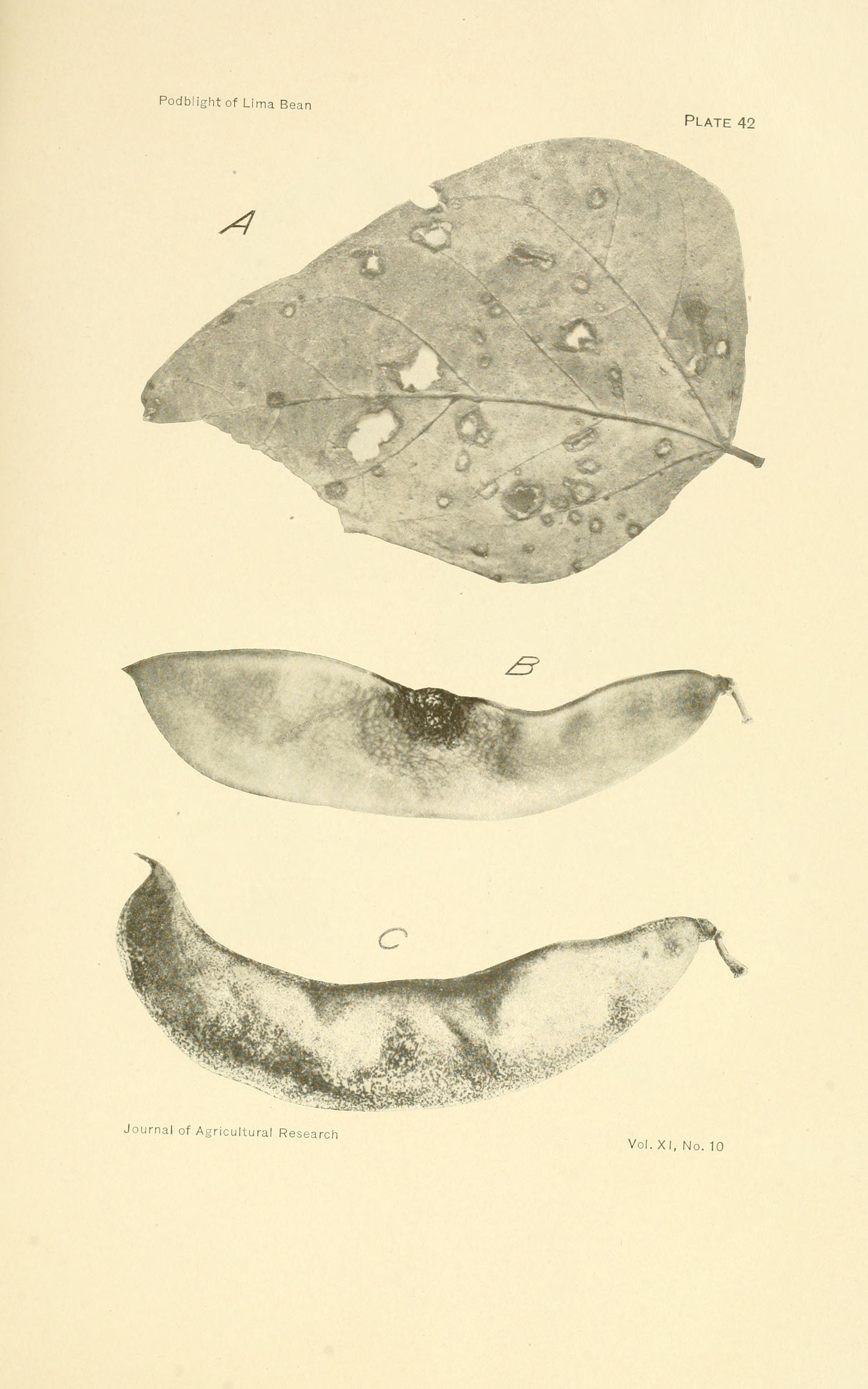 PLATE 42 Diaporthe phaseolorum: A. — A leaflet of Phaseolus lunatus L. , showing a number of ragged holes of various sizes caused by the Lima bean podblight fungus. This specimen was collected at Cape May, N. J., August 5, 1915. The disease was produced on pods by inoculation with the organism (601) isolated from this leaf. Natural size. B. — A green Lima bean pod photographed 10 days after inoculation with the ascospore strain. Pycnidia are abundantly formed over an area about y 2 inch in diameter; outside of this is another somewhat darkened area which has already been invaded by the fungus, but the pycnidia have not yet broken through the epidermis. Natural size. C. — A pod showing the characteristic manner in which the fungus rapidly overruns it soon after it is killed, pycnidia forming indiscriminately over the entire surface. Natural size.